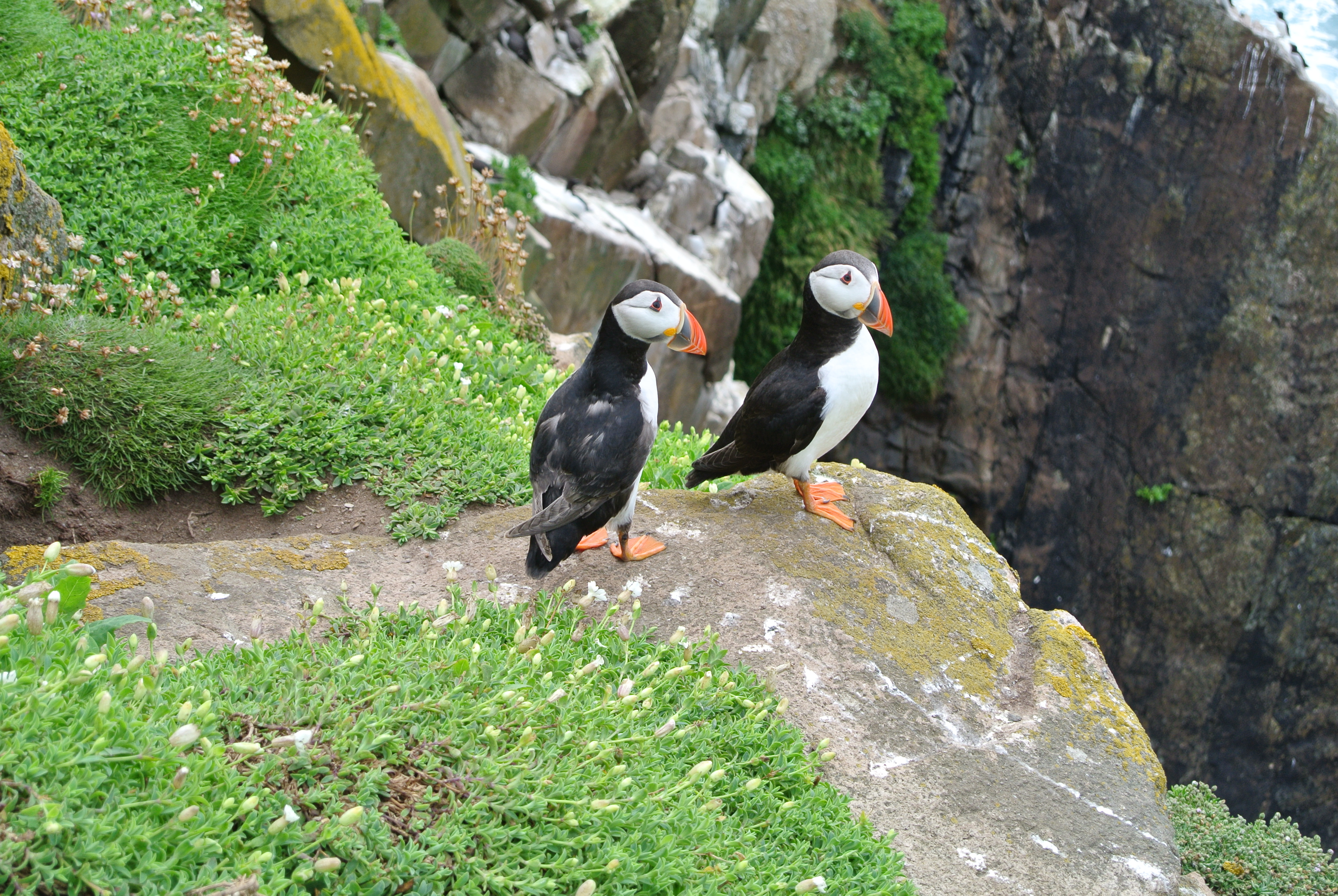 Puffins on Saltee Islands